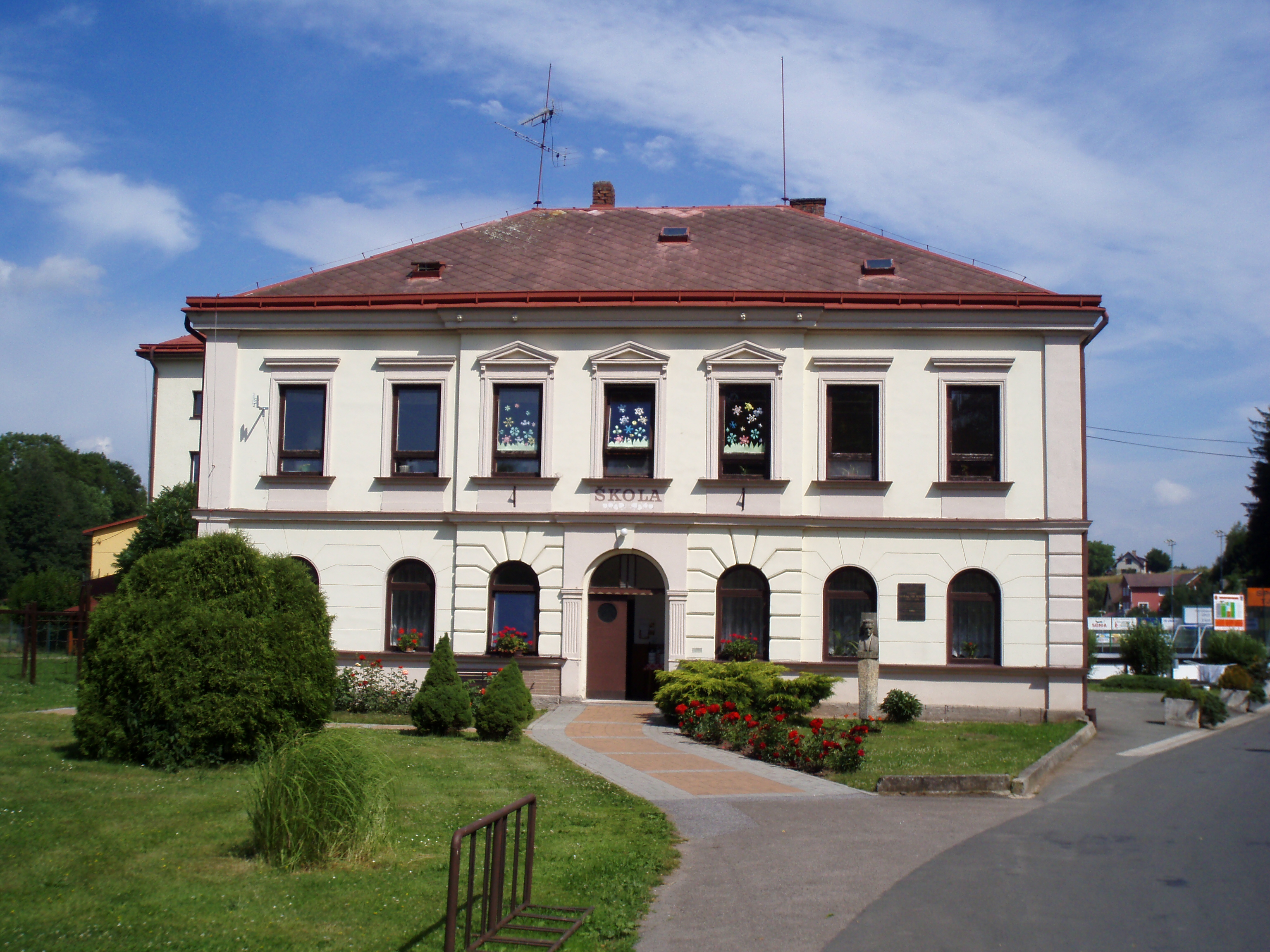 School in Havlovice (CZ)